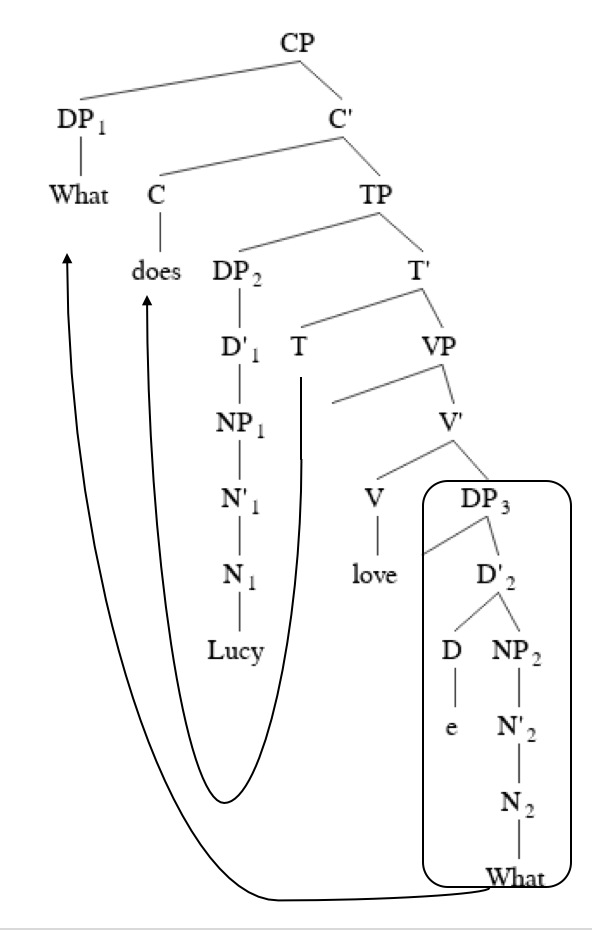 What does Lucy love?